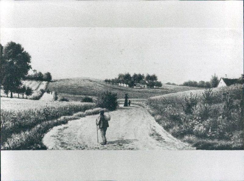 The landscape at present-day Godthåbsvej, approximately at present-day Grøndals Allé, in Frederiksberg, Denmark.